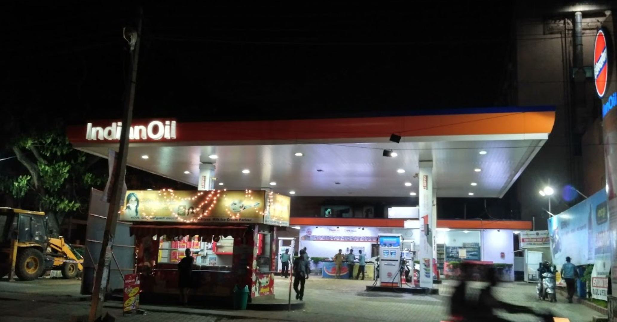 Indian Oil Petrol Bunk opposite Dr. Ambedkar Stadium, Bangalore